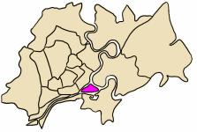 position of district 4 in an outline of the core area of HCMC (Ho Chi Minh City, Vietnam) - ISO code VN-F-HC. Keywords: map, outline, city, Ho Chi Minh City, HCMC, HCM, district 4, quan 4.